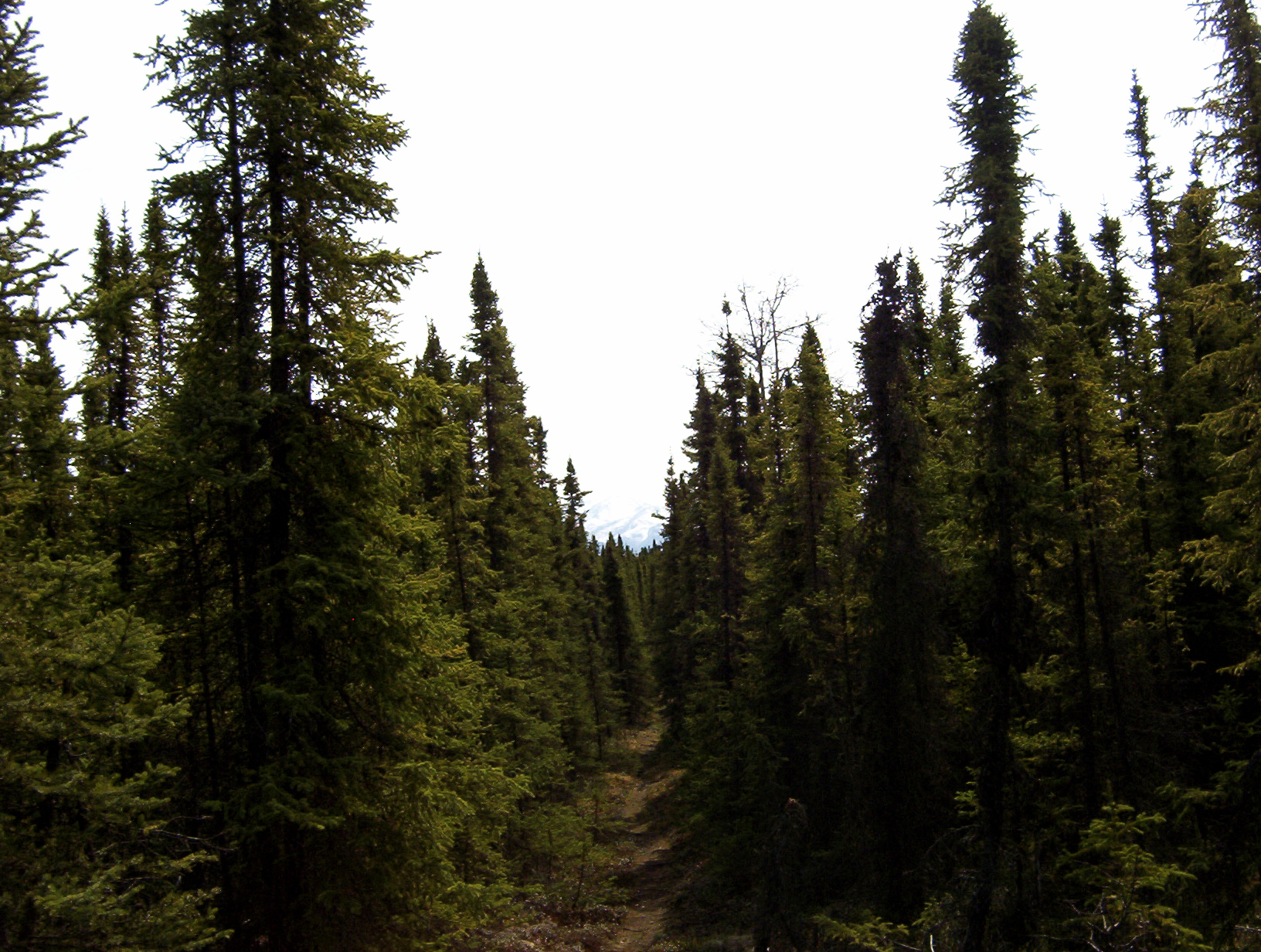 A heavily wooded section of the Seven Lakes trail, Kenai National Wildlife Refuge, Alaska